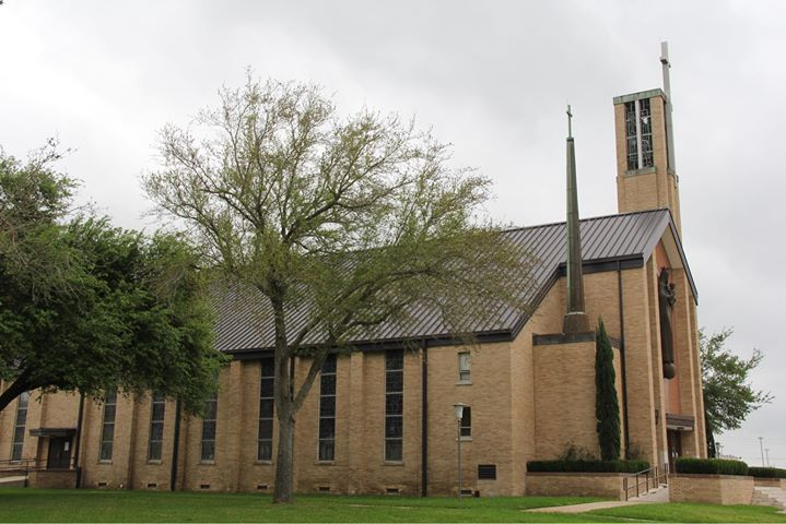 View from the outside of the Cathedral Our Lady of Victory, mother church of the diocese of Victoria in Texas